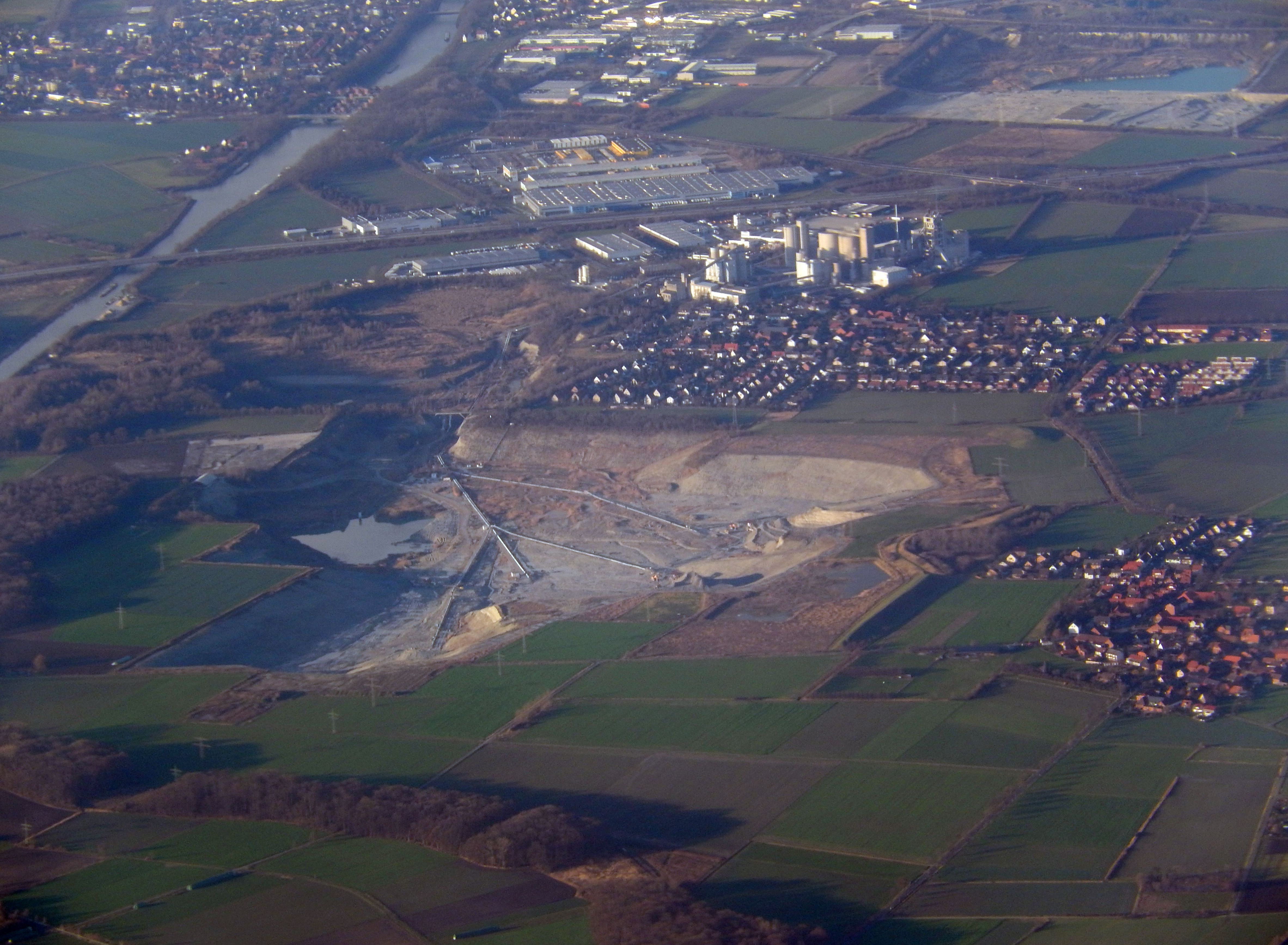 Aerial photo of Höver, Germany.